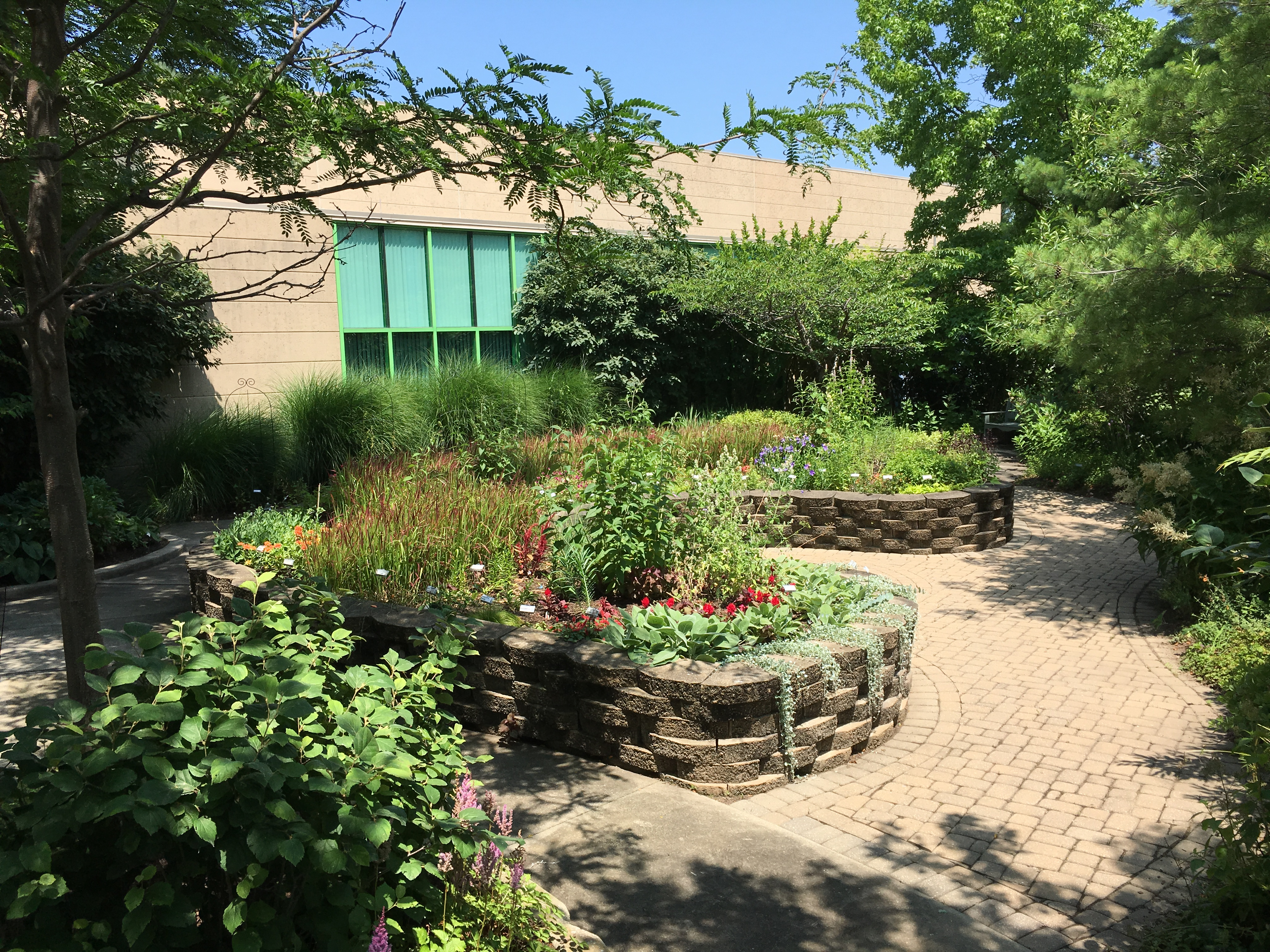 Sensory Garden at the Ohio Library for the Blind and Physically Disabled attached to the Cleveland Public Library Memorial-Nottingham Branch Library, Cleveland, Ohio